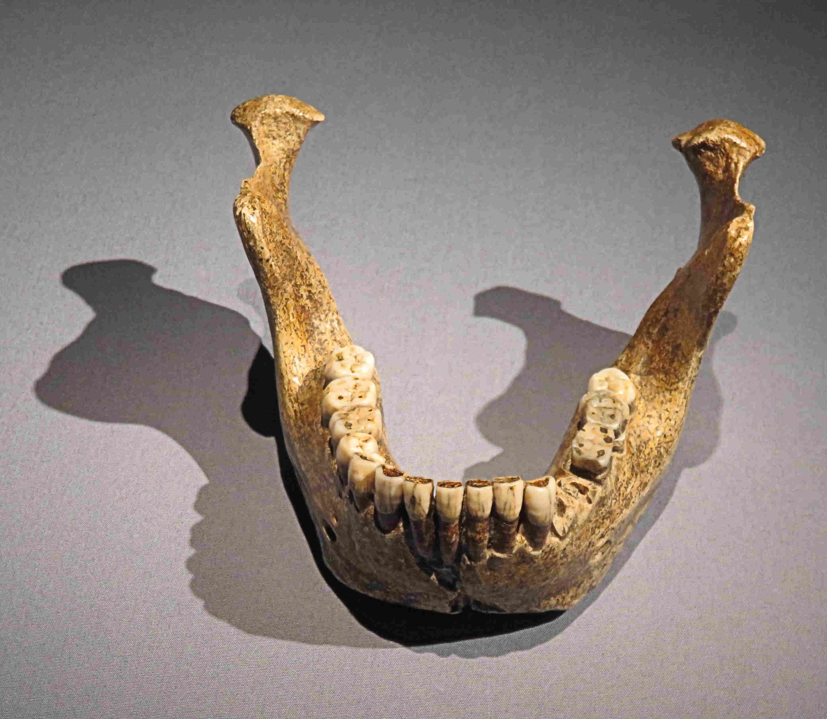 Mandible (lower jaw) of the type specimen of Homo heidelbergenis from Mauer near Heidelberg, Germany (Original)